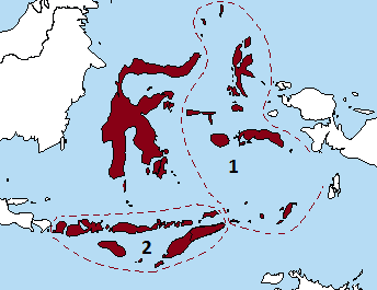 Wallacea Hotspot Map